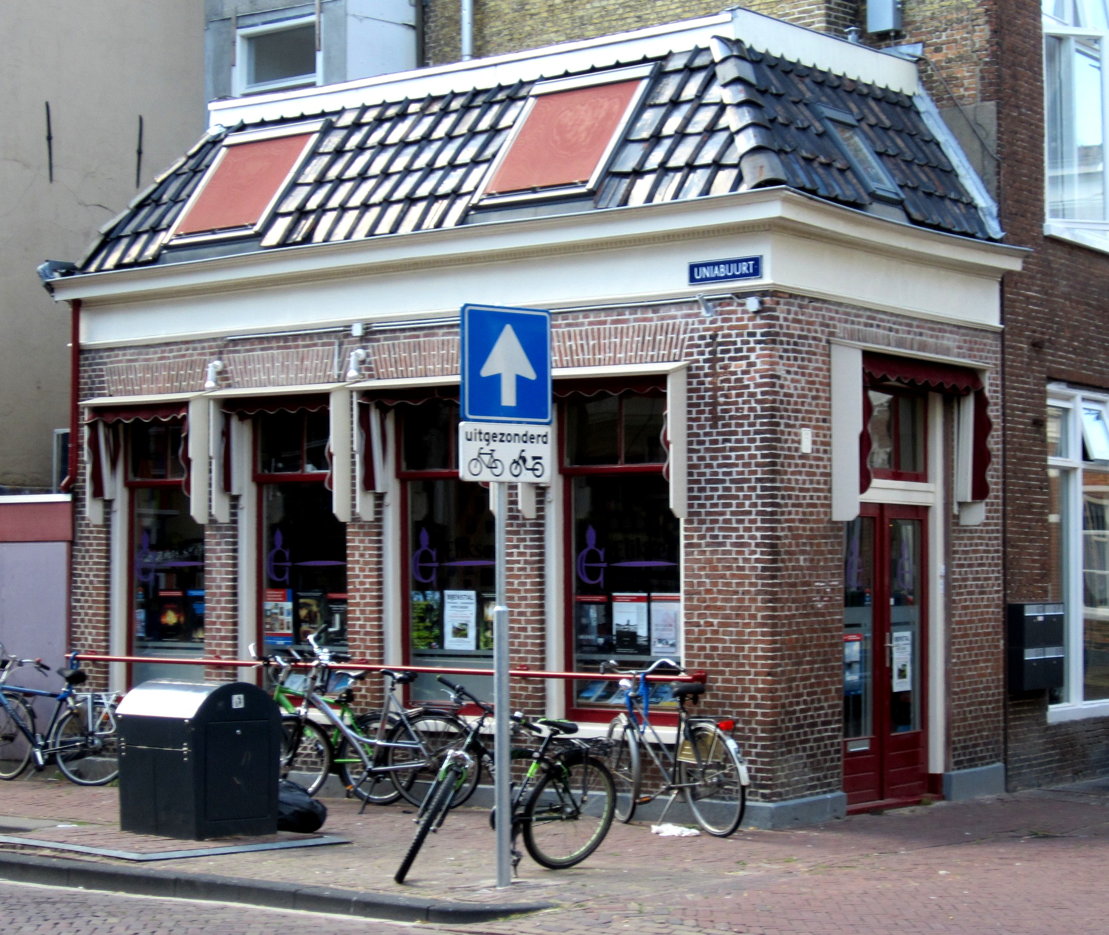 Building of Utjouwerij Elikser, a publishing house, on Ossekop street in Leeuwarden/Ljouwert, Friesland, the Netherlands.